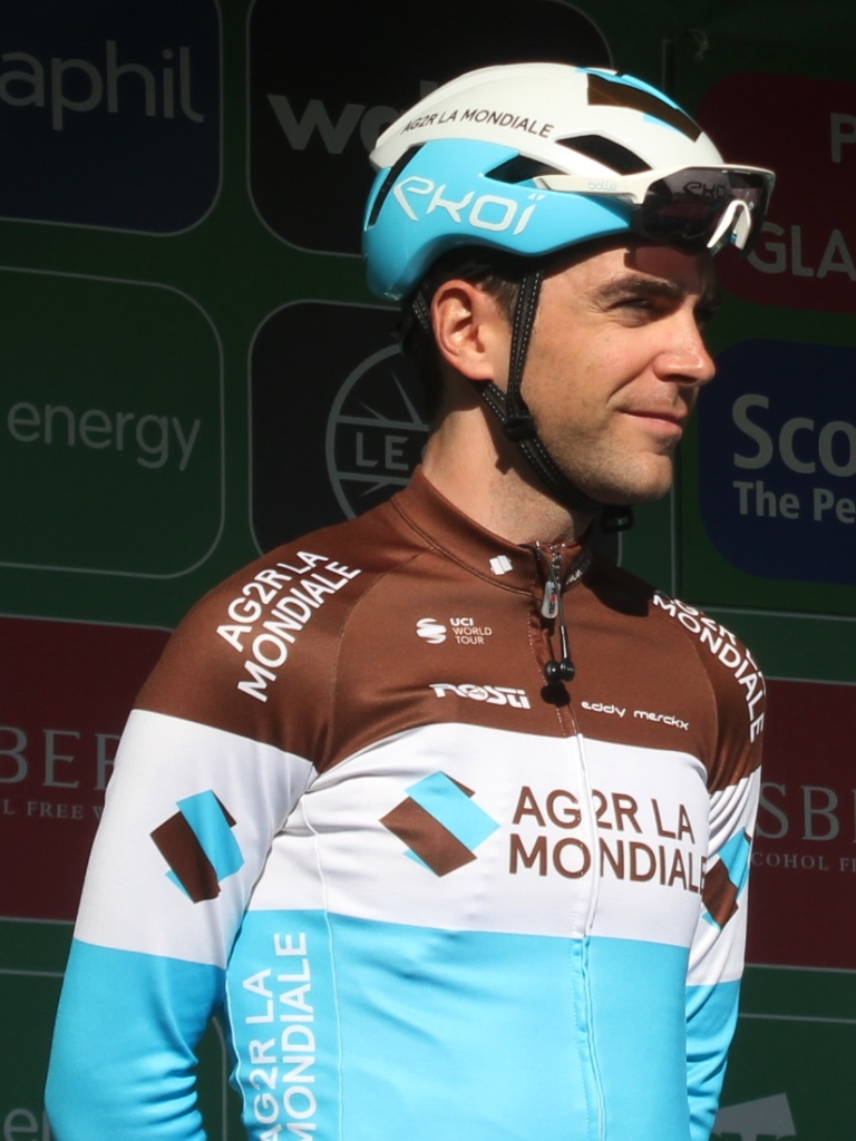 Tony Gallopin at the start of the 2019 Tour of Britain cycle race in Glasgow.